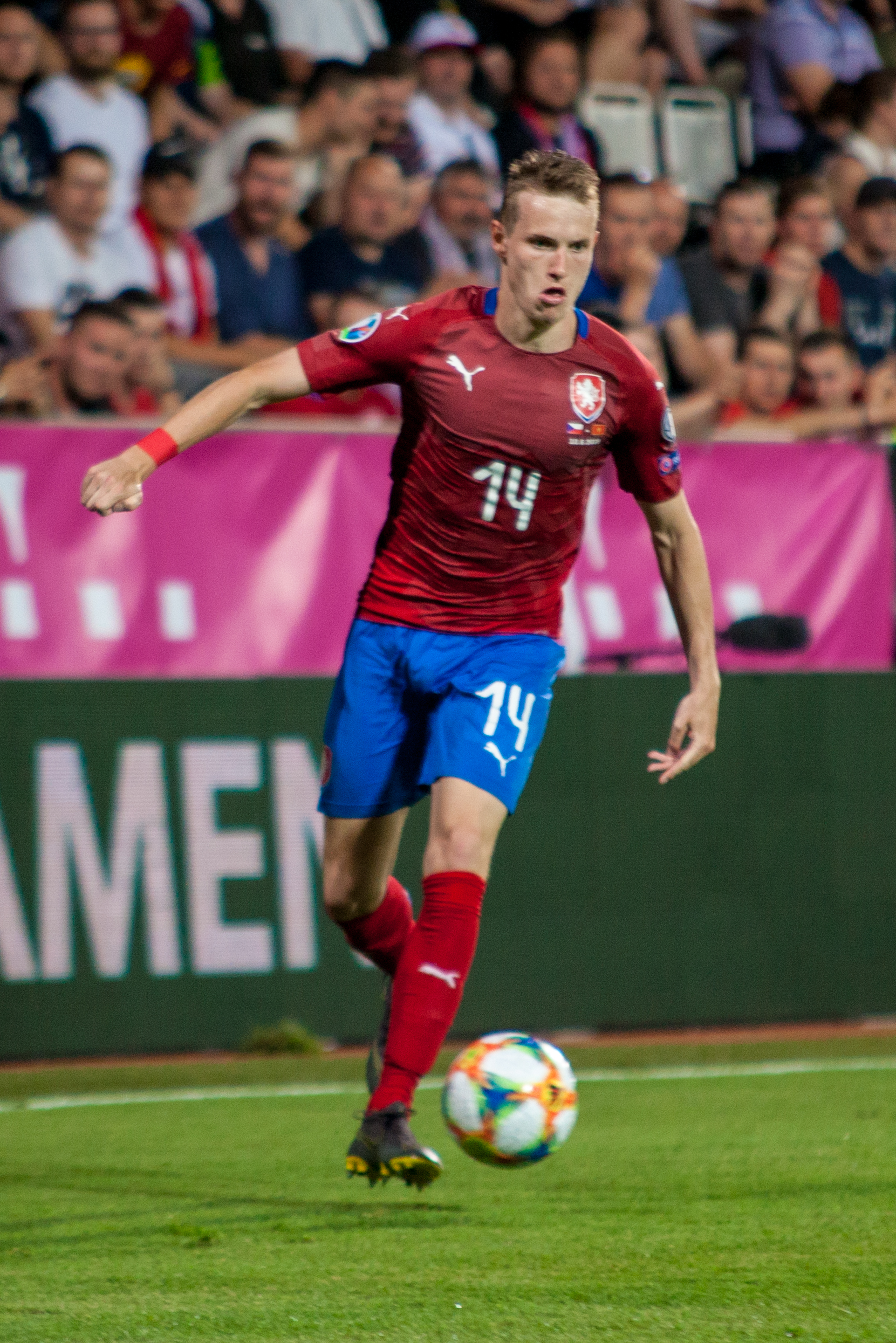 Jakub Jankto at EURO 2020 Qualifying Round Czech Republic-Montenegro (10/6/2019, Ander Stadium, Olomouc) Personality rights warningAlthough this work is freely licensed or in the public domain, the person(s) shown may have rights that legally restrict certain re-uses unless those depicted consent to such uses. In these cases, a model release or other evidence of consent could protect you from infringement claims.